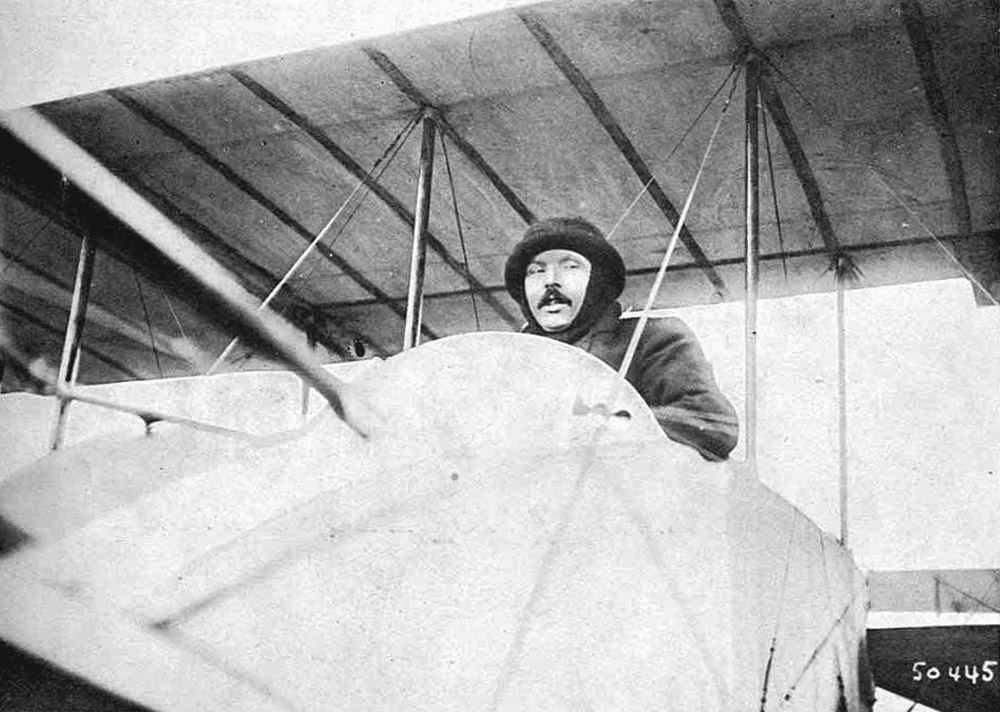 1909 aviator Maurice Farman photograph